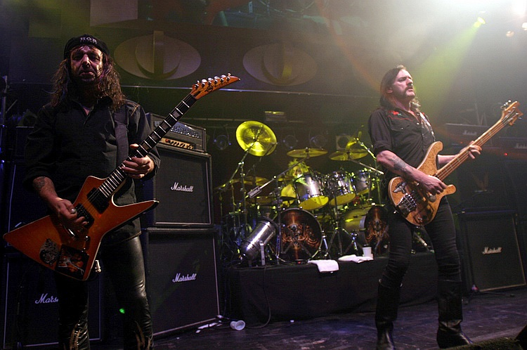 Motorhead Live at Reds, Edmonton, May, 2005